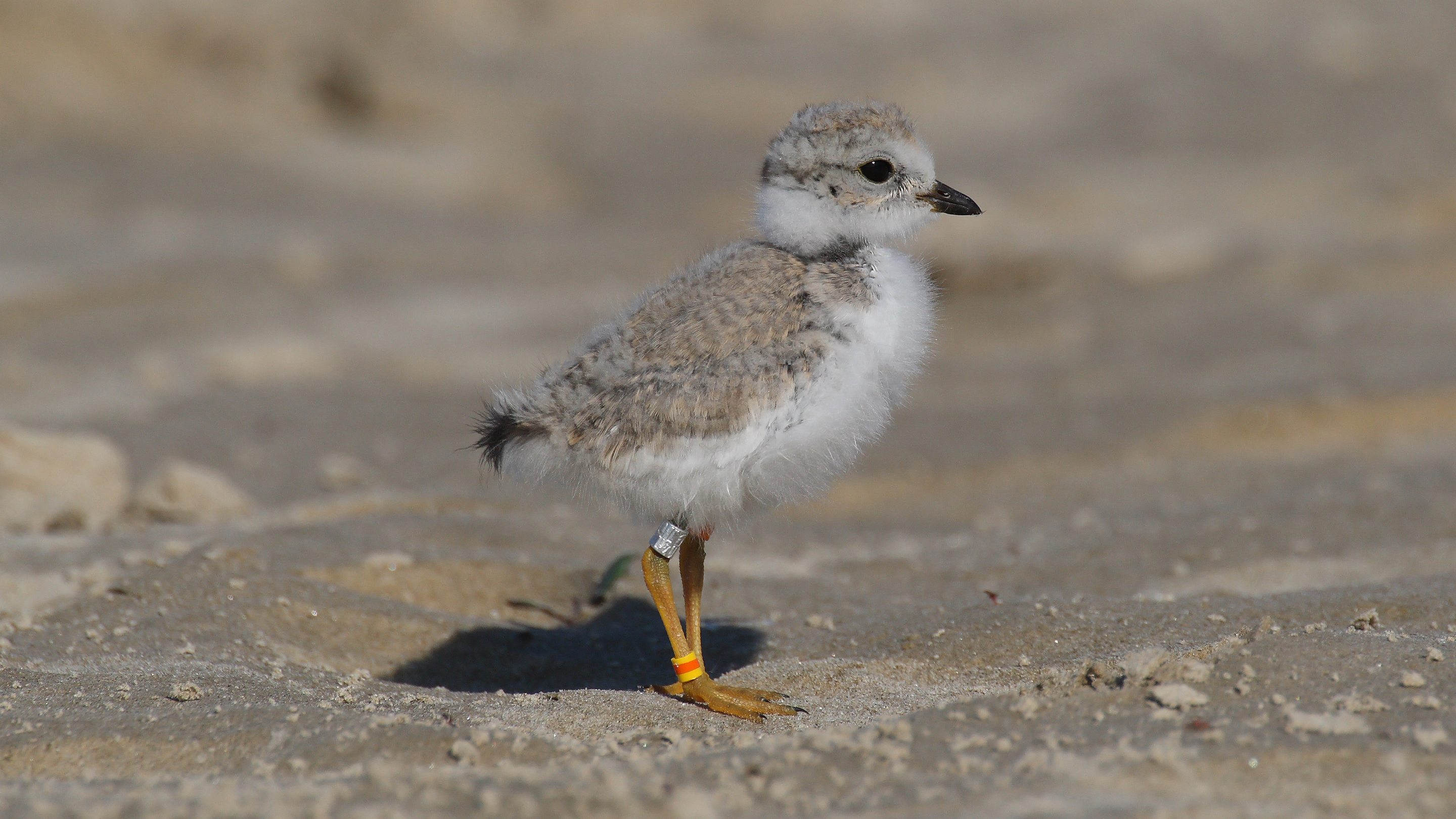 Piping Plover (2 weeks old) (Charadrius melodus) -- Sauble Beach, Ontario, Canada -- 2008 July